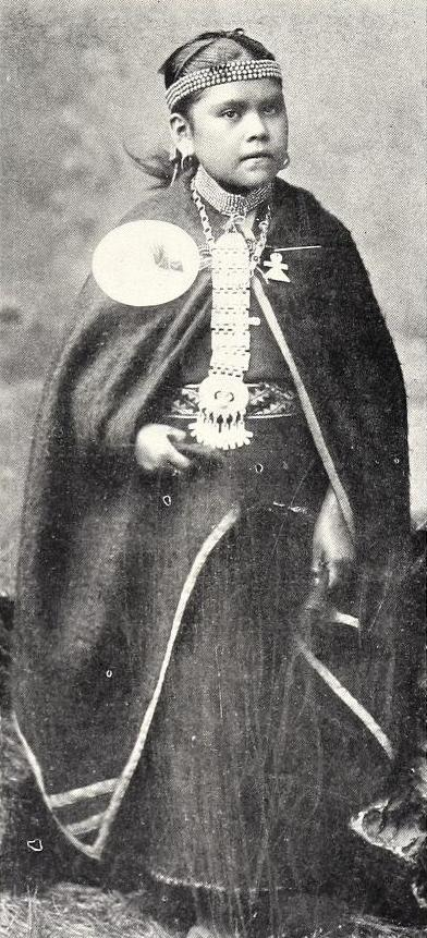 Costume of a cacique´s daughter, ornamentsn of silver made by indians